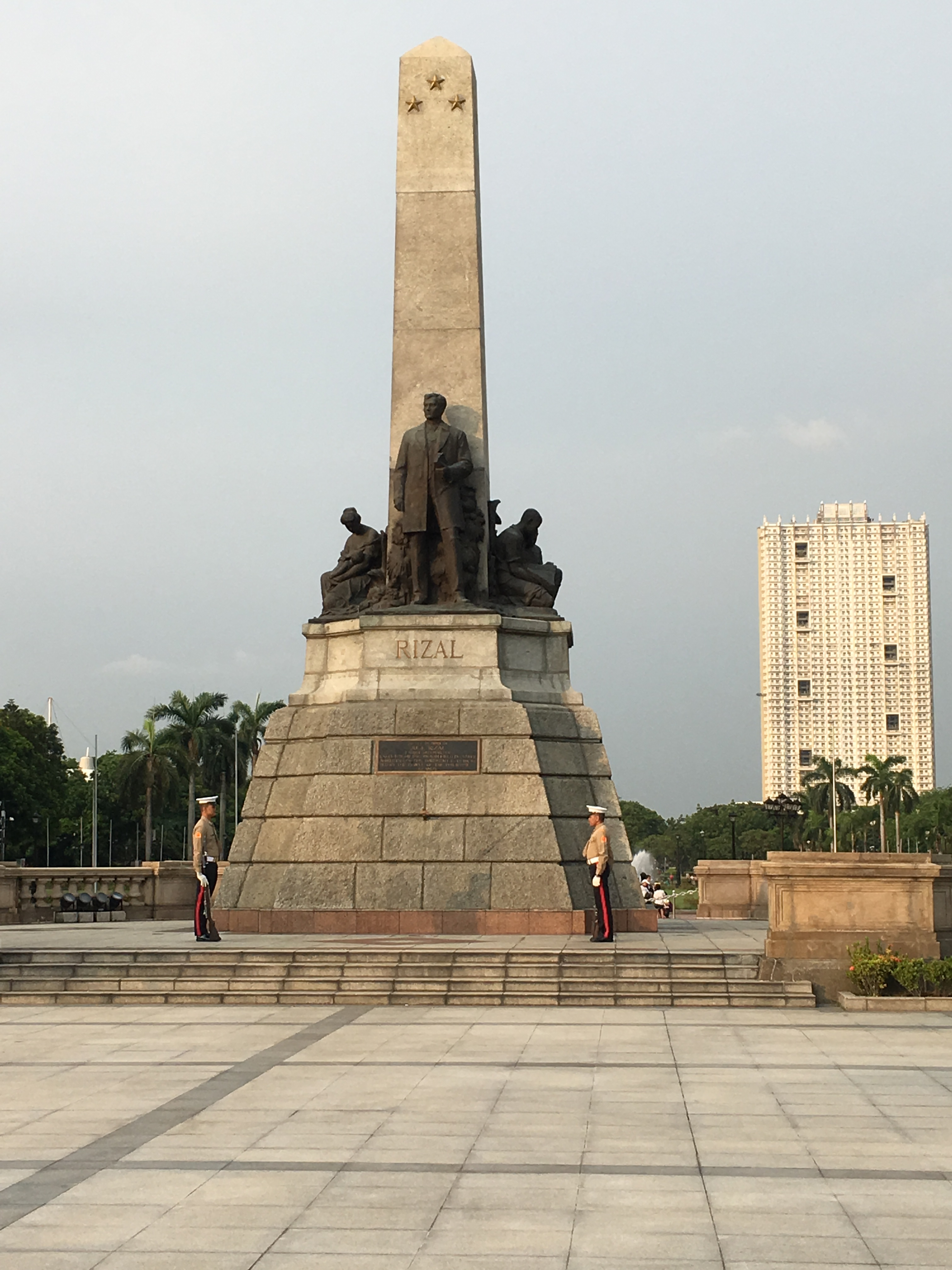 Rizal Monument at Philippines photobombed by Torre De Manila